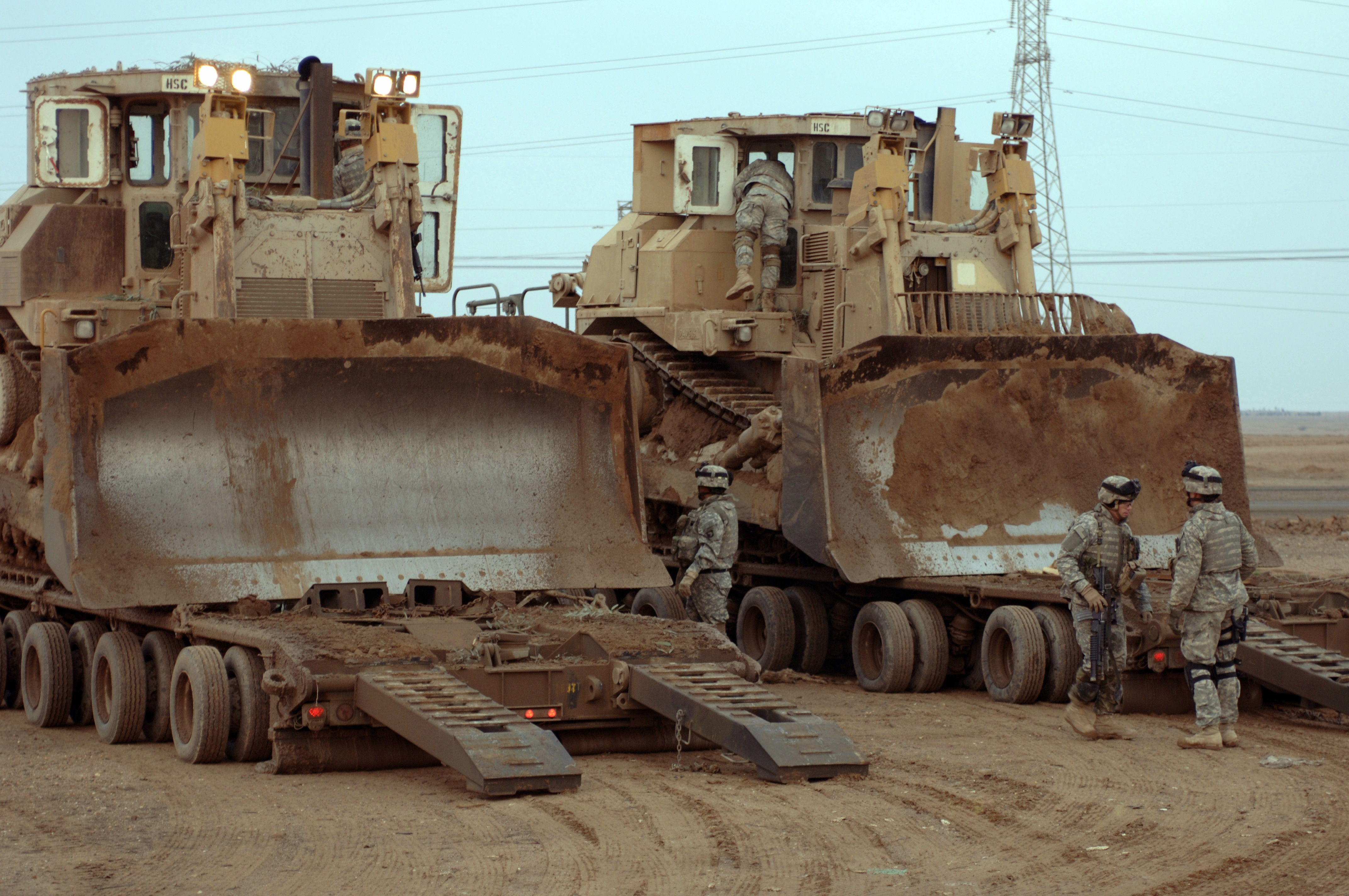 Two D9 Dozers used by engineers from Alpha Company 3rd Special Troops Battalion 3rd Brigade 101st Airborne Division (Air Assault) prepare to place burms around a restaurant/gas station on the morning of 11 January 2006, in Al Butoma, Iraq ,a town south of Bayji. (Released) Photo by Spc Jose Ferrufino.